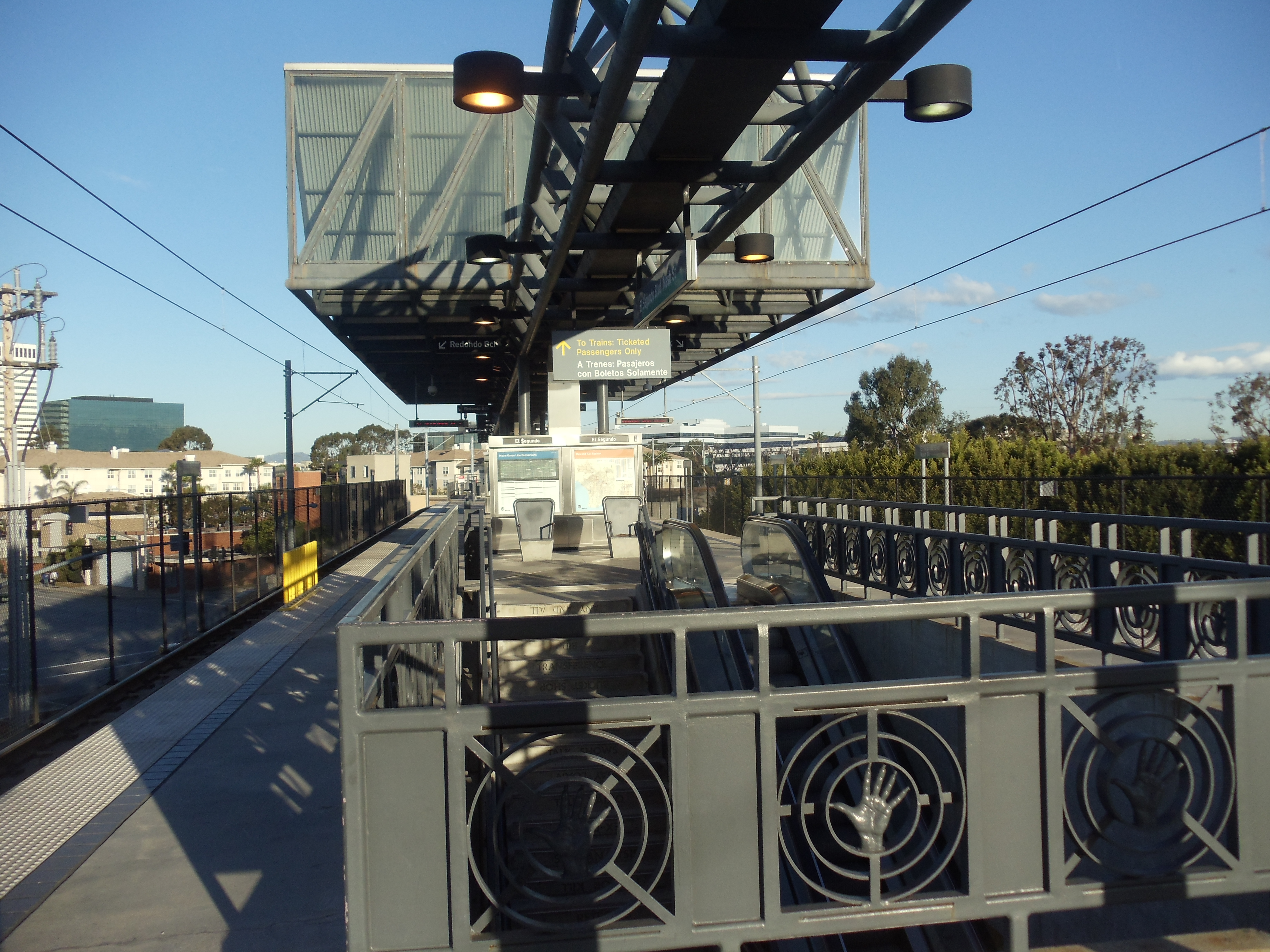 Station overview.